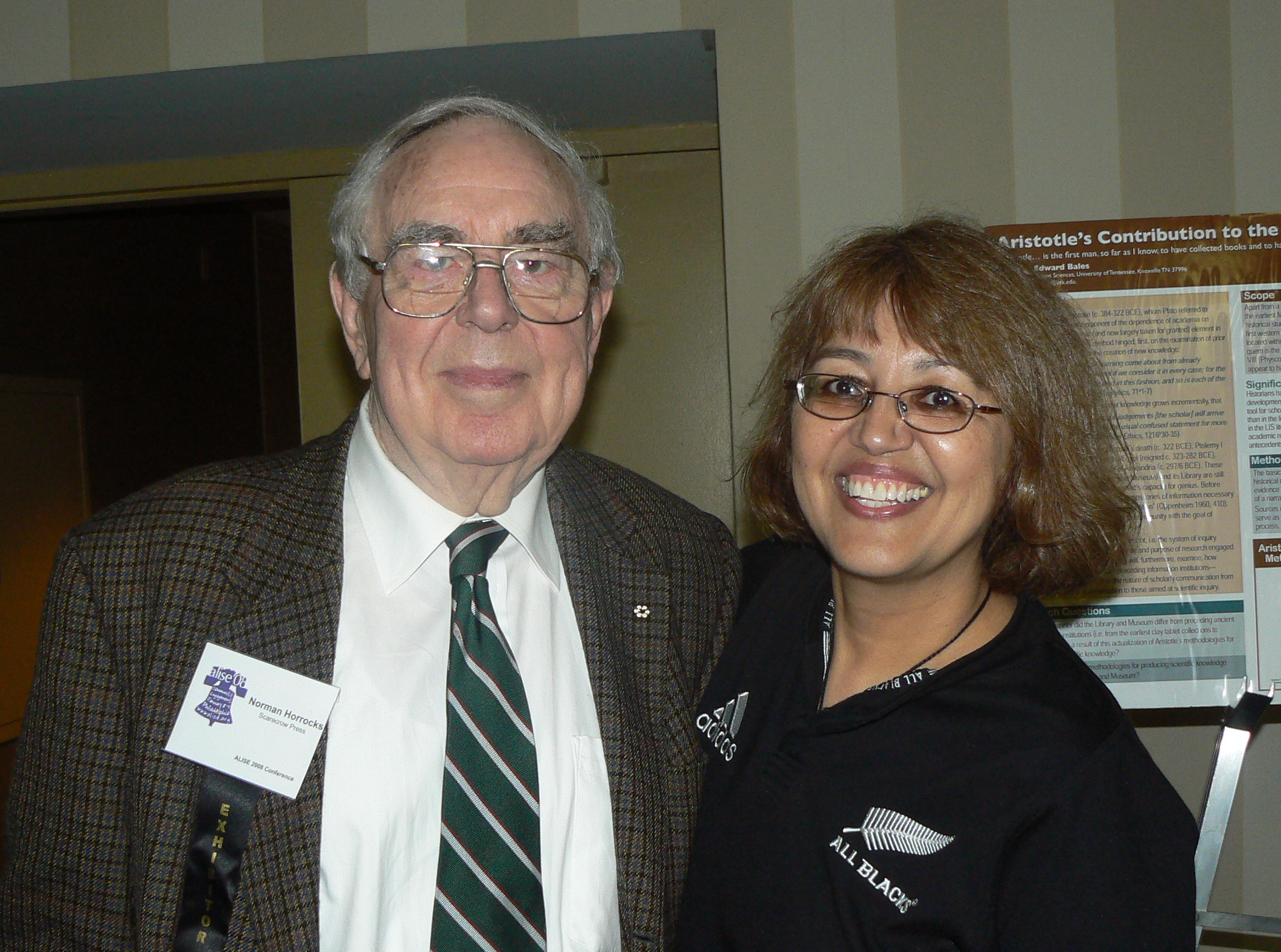 Photo of Norman Horrocks and Loriene Roy at a library conference